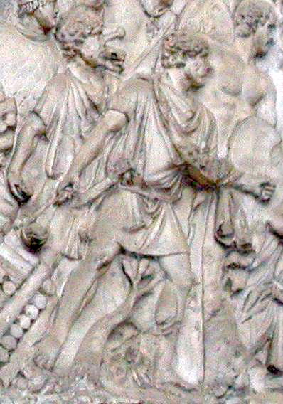 Slingers. From the cast of Trajan's column in the Victoria and Albert museum, London.